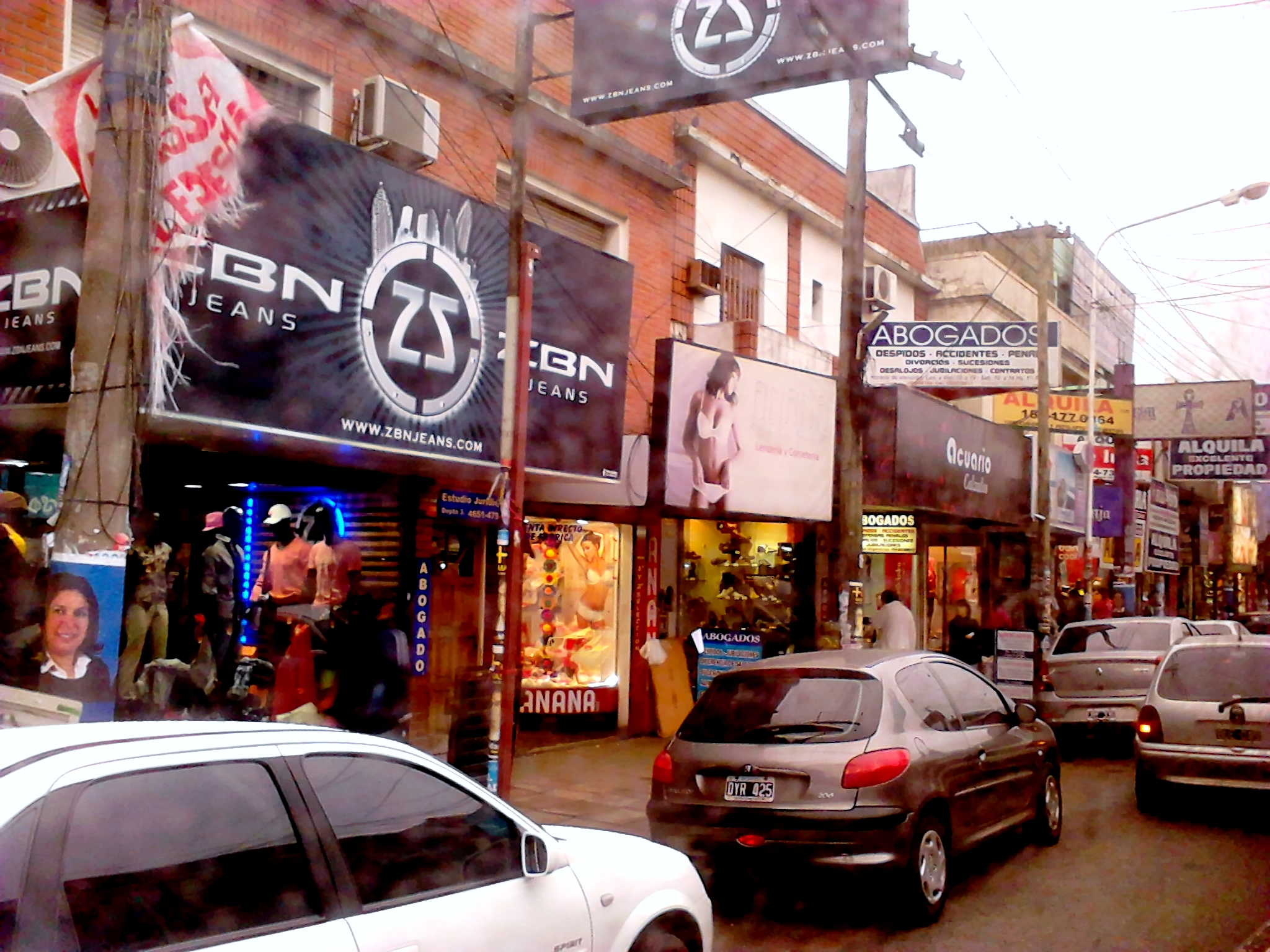 Commercial strip at Avenida Arieta, San Justo, Buenos Aires, Argentina.